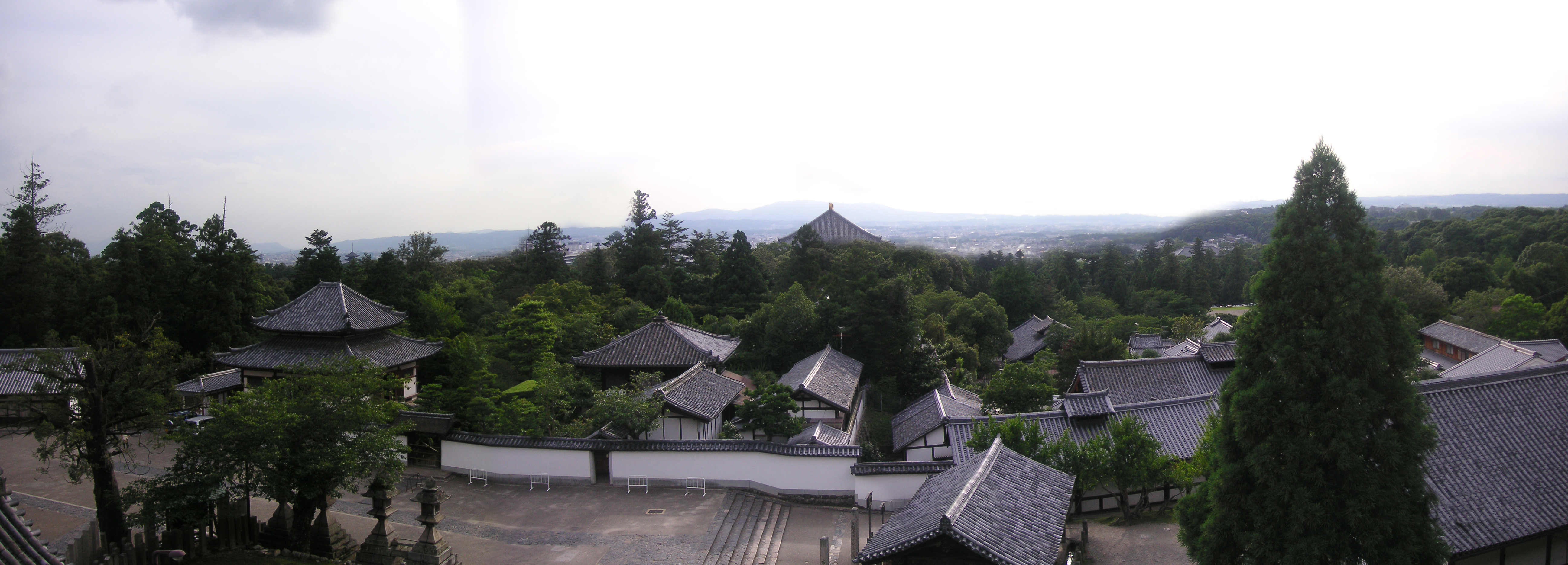 Overlooking the grounds of Nigatsu-dō (二月堂), with the roof of Tōdai-ji and Nara City in the background. Taken by DinkY2K